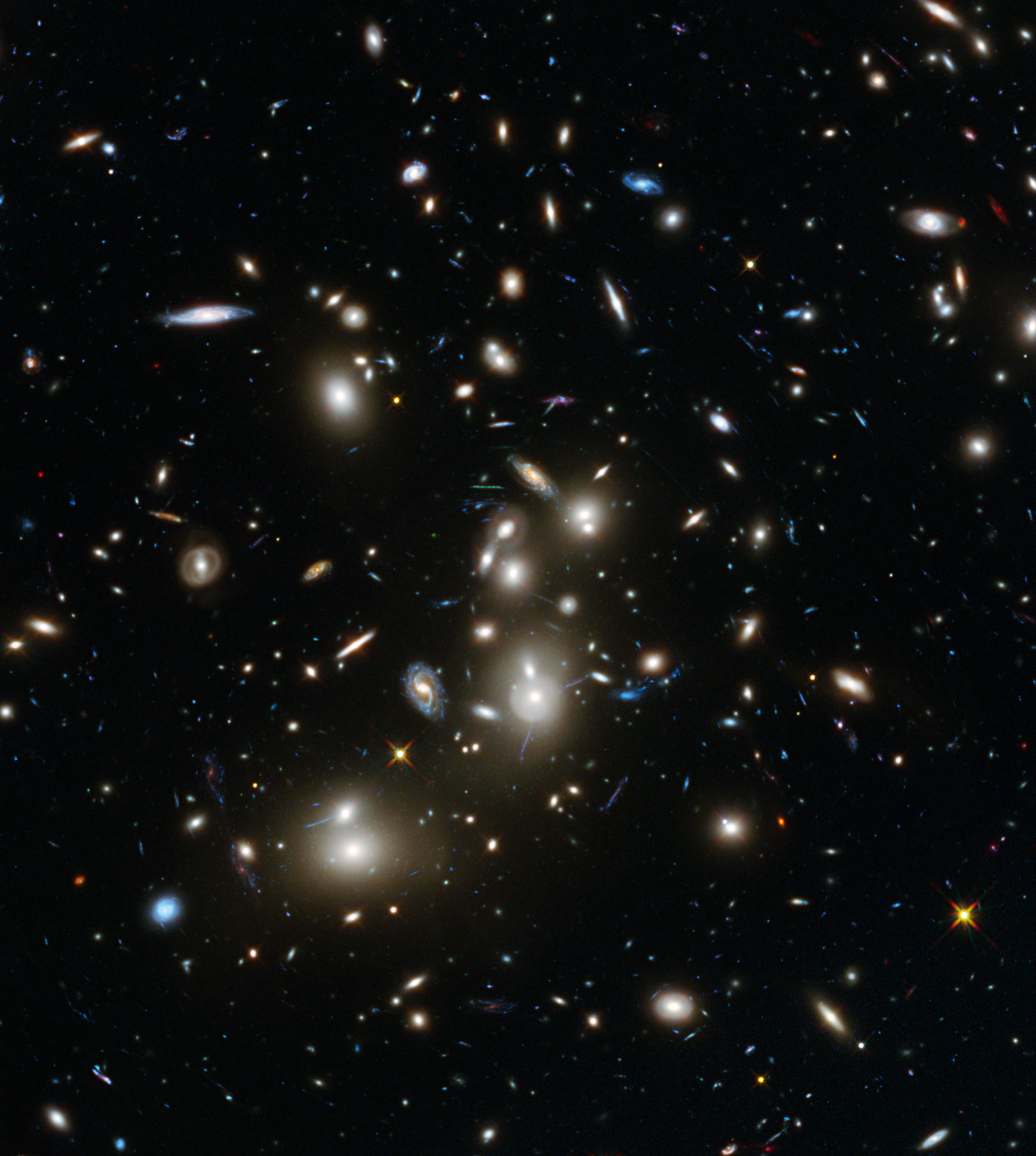 Hubble Frontier Fields view of Abell 2744 This image of Abell 2744 is the first to come from Hubble's Frontier Fields observing programme, which is using the magnifying power of enormous galaxy clusters to peer deep into the distant Universe. Abell 2744, nicknamed Pandora's Cluster, is thought to have a very violent history, having formed from a cosmic pile-up of multiple galaxy clusters. Abell 2744 is the first of six targets for an observing programme known as Frontier Fields. This three-year, 840-orbit programme will yield our deepest views of the Universe to date, using the power of Hubble to explore more distant regions of space than could otherwise be seen, by observing gravitational lensing effects around six different galaxy clusters.